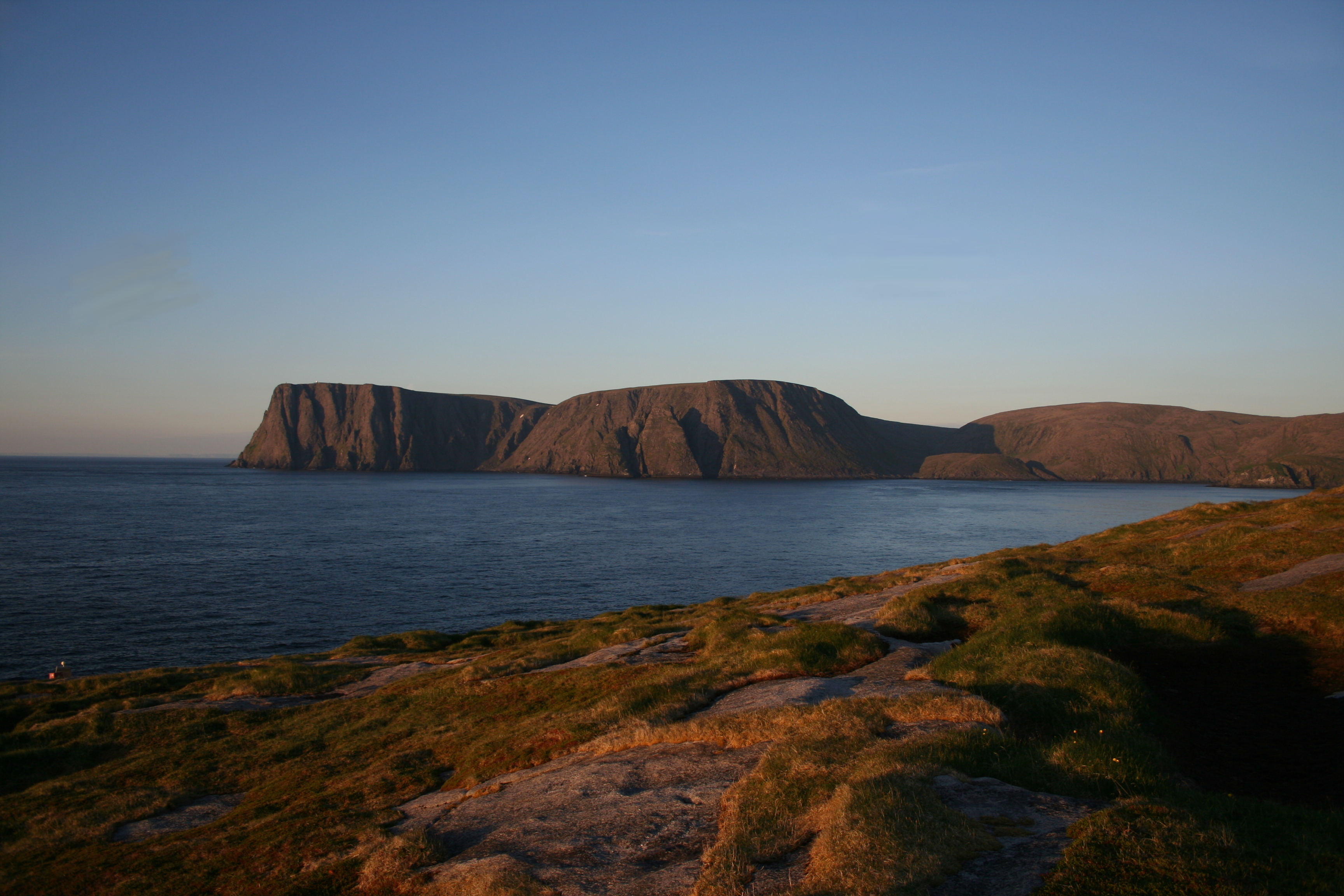 Midnigt sun at Knivskjellodden with a view at North Cape Norway